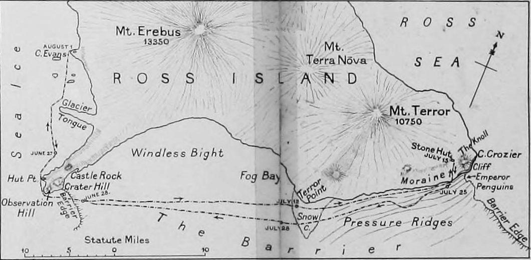 The map of the winter journey to Cape Crozier (Ross Island) performed by Edward Wilson, Henry Bowers and Apsley Cherry-Garrard